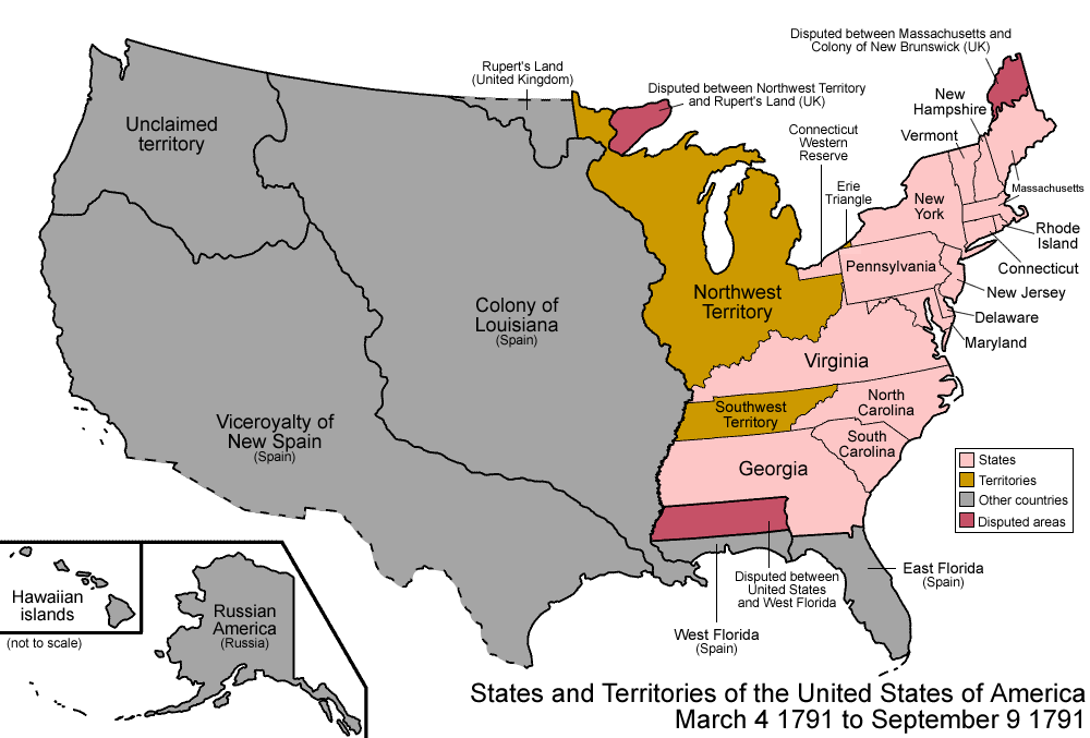 Map of the states and territories of the United States as it was from March 1791 to September 1791. On March 4 1791, the Vermont Republic joined as the state of Vermont. On September 9 1791, the District of Columbia was created from parts of Maryland and Virginia. (The Virginia portion was later returned)